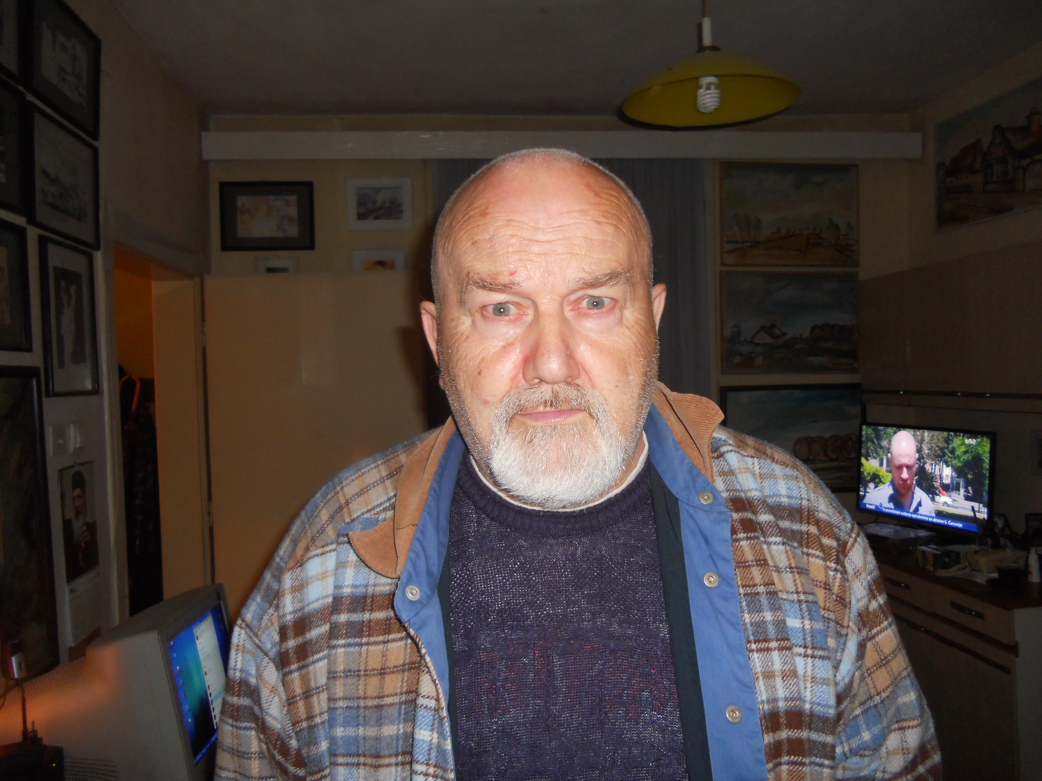 painter Vlastislav Cesnak from Kulpin Deitsch: Msler Vlastislav Cesnak aus Kulpin